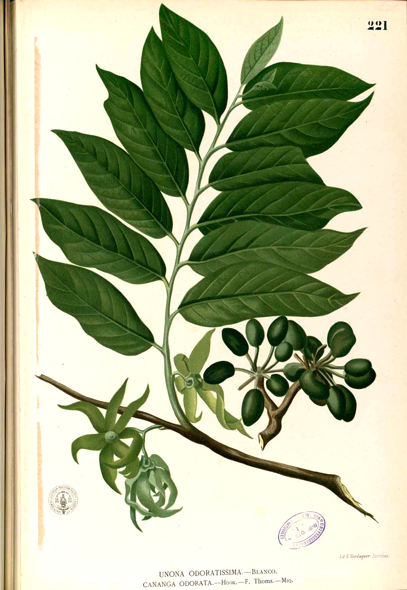 Plate from book